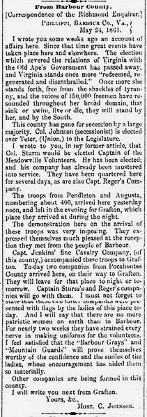 Clipping from the Richmond Enquirer June 11, 1861, relating to Confederate troops at Grafton, Va., detailing composition of Col. Porterfield's forces.